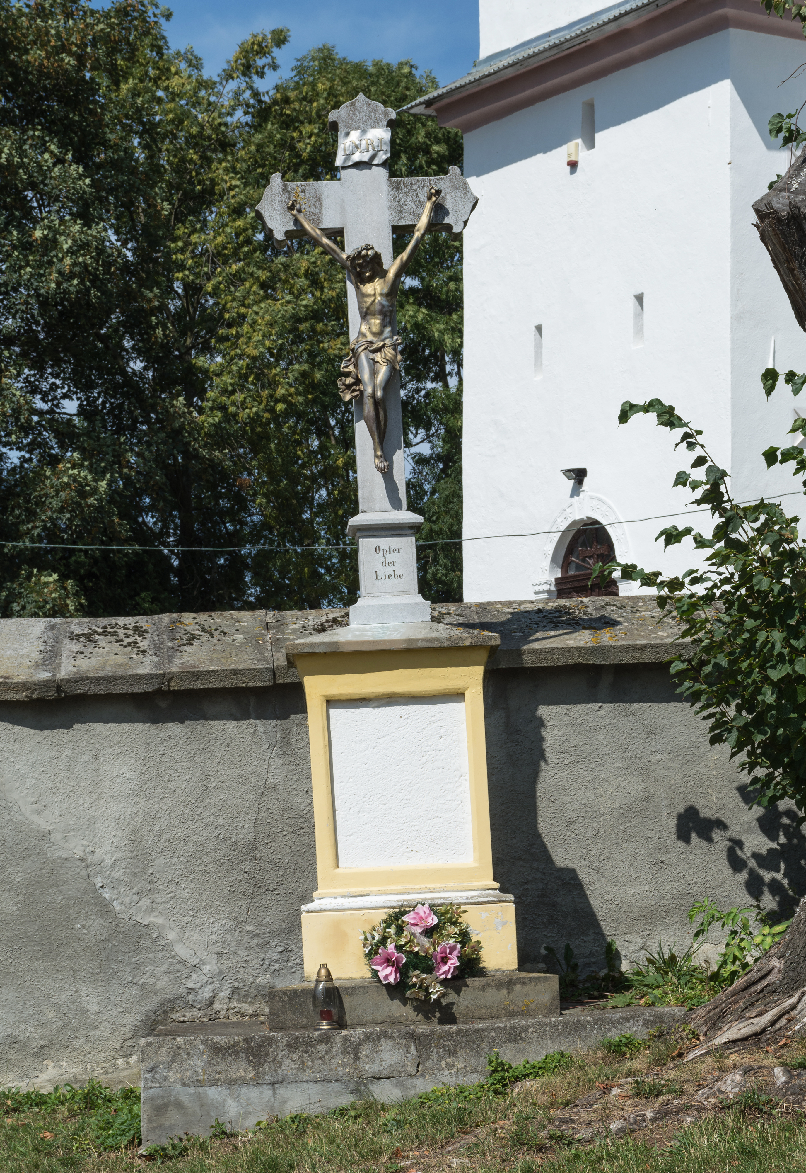 Saint Joseph church in Ponikwa